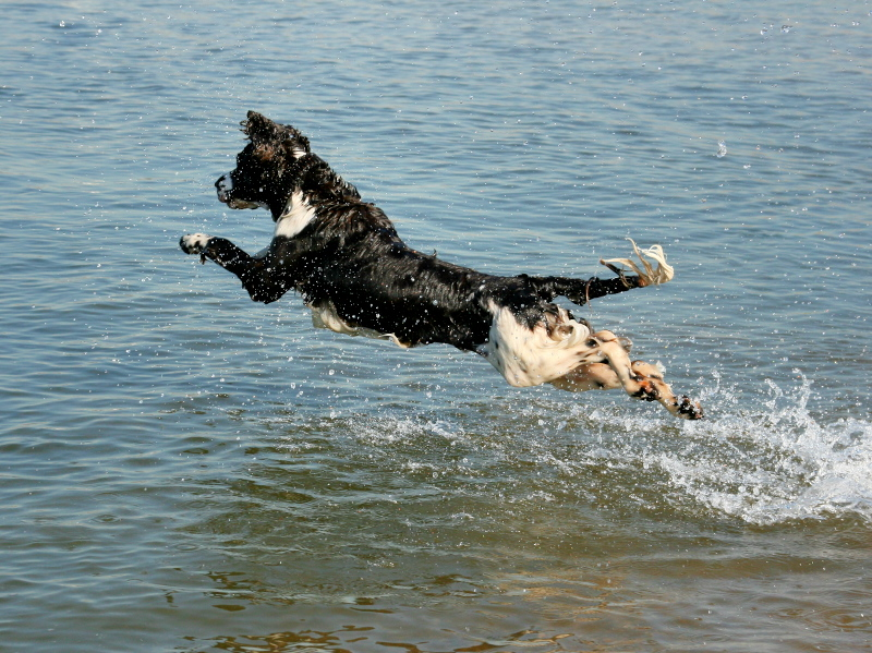 English Springer Spaniel,Coffee, 3 Years old